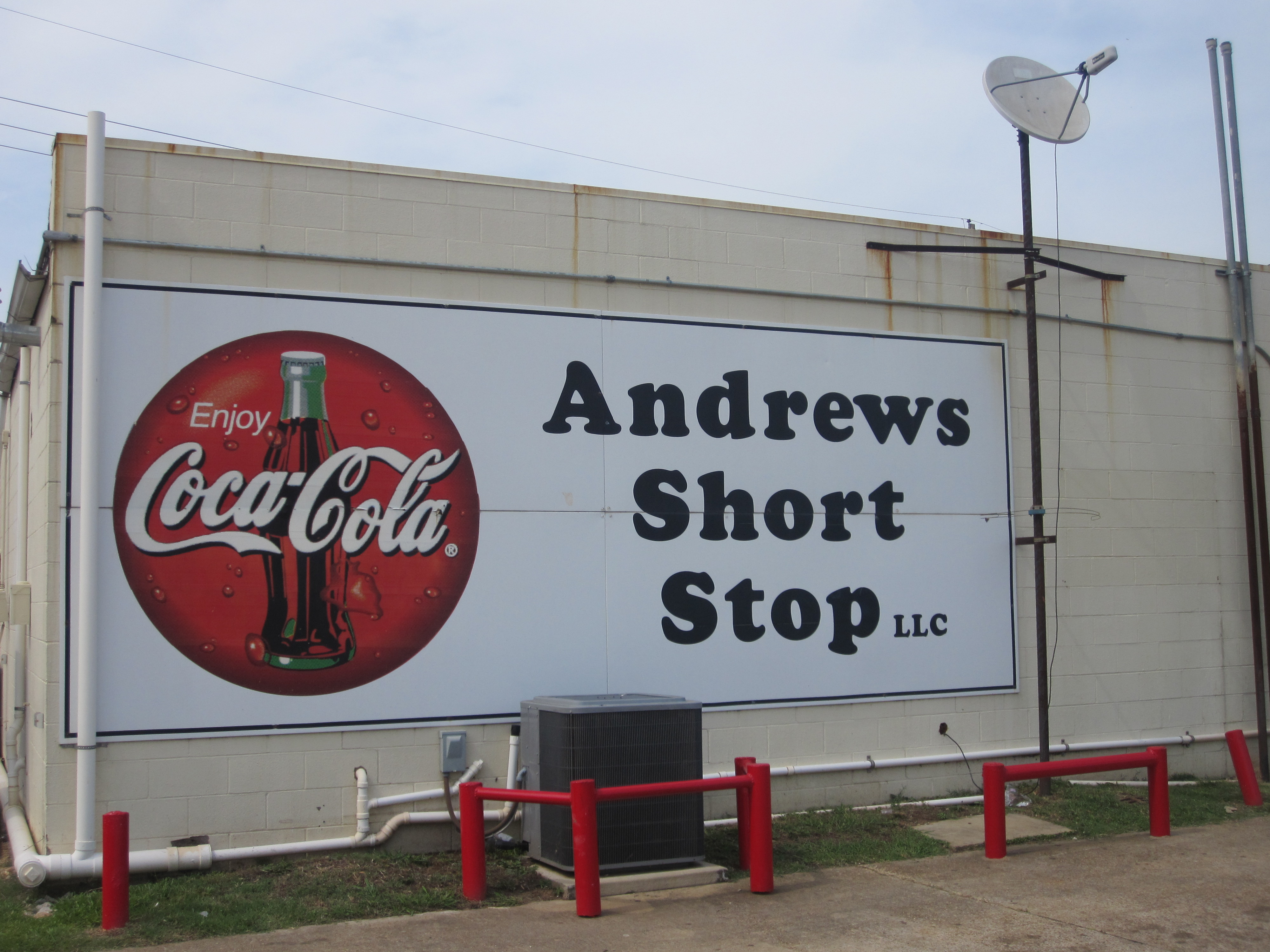 Andrews Short Stop in Sarepta, LA. I took photo with Canon camera.